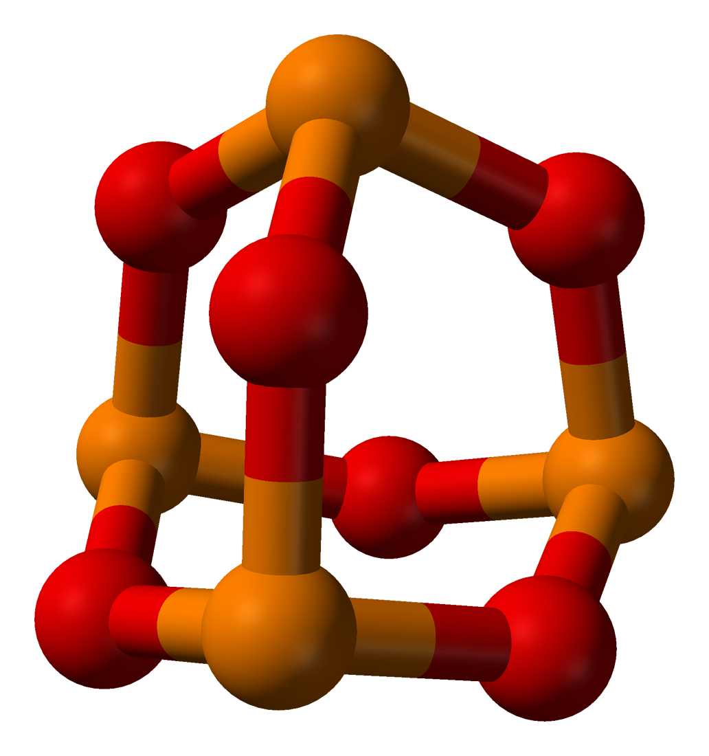 Ball-and-stick model of the P4O6 molecule as found in the crystal structure of phosphorus trioxide, P2O3. X-ray crystallographic data from M. Jansen, M. Moebs (1984). "Structural investigations on solid tetraphosphorus hexaoxide". Inorg. Chem. 23 (26): 4486–4488. Model constructed in CrystalMaker 8.1. Image generated in Accelrys DS Visualizer.